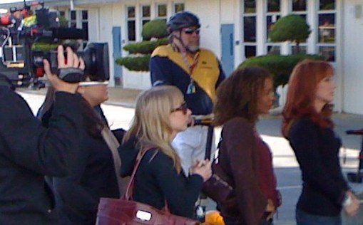 That's John in the leather jacket, whose email Arlo forwarded to me, that got me involved in this in the first place.